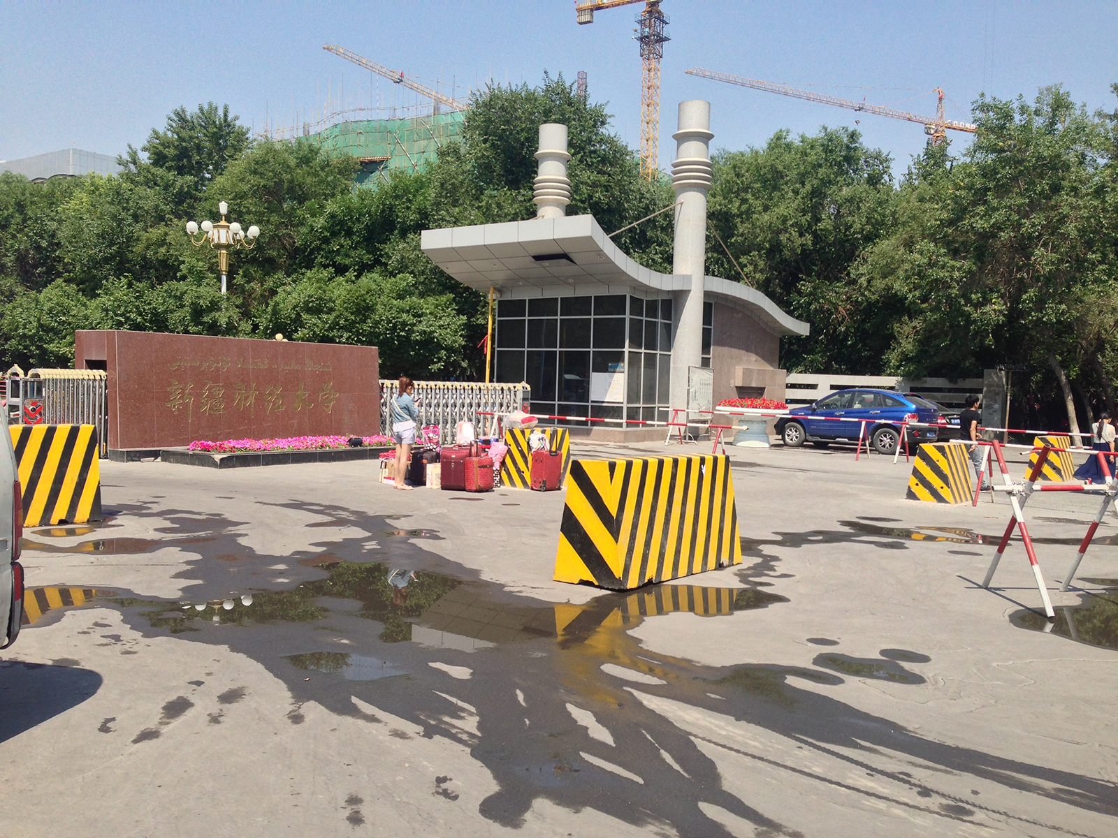 After market blast, Urumqi enhanced secure level, each school(including university), entrance of residential area, avenue, vital junction have been set up concrete barricades in order to defend similar dash attacks by vehicles. The image shows many concrete barricades ahead the main gate of Xinjiang University of Financial and Economics in Urumqi.